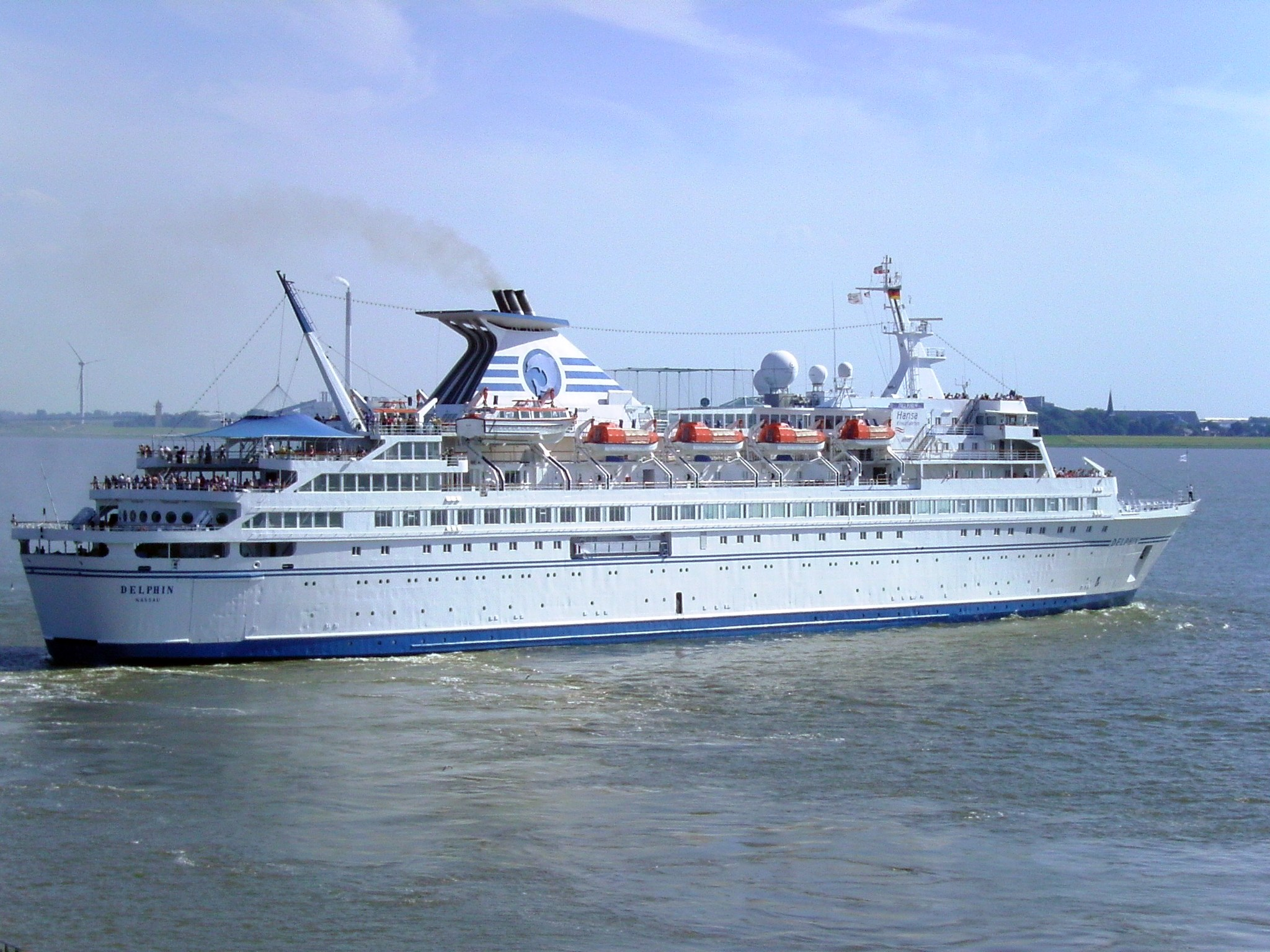 The cruise ship Delphin has cast off the Columbus Cruise Center in Bremerhaven, Germany